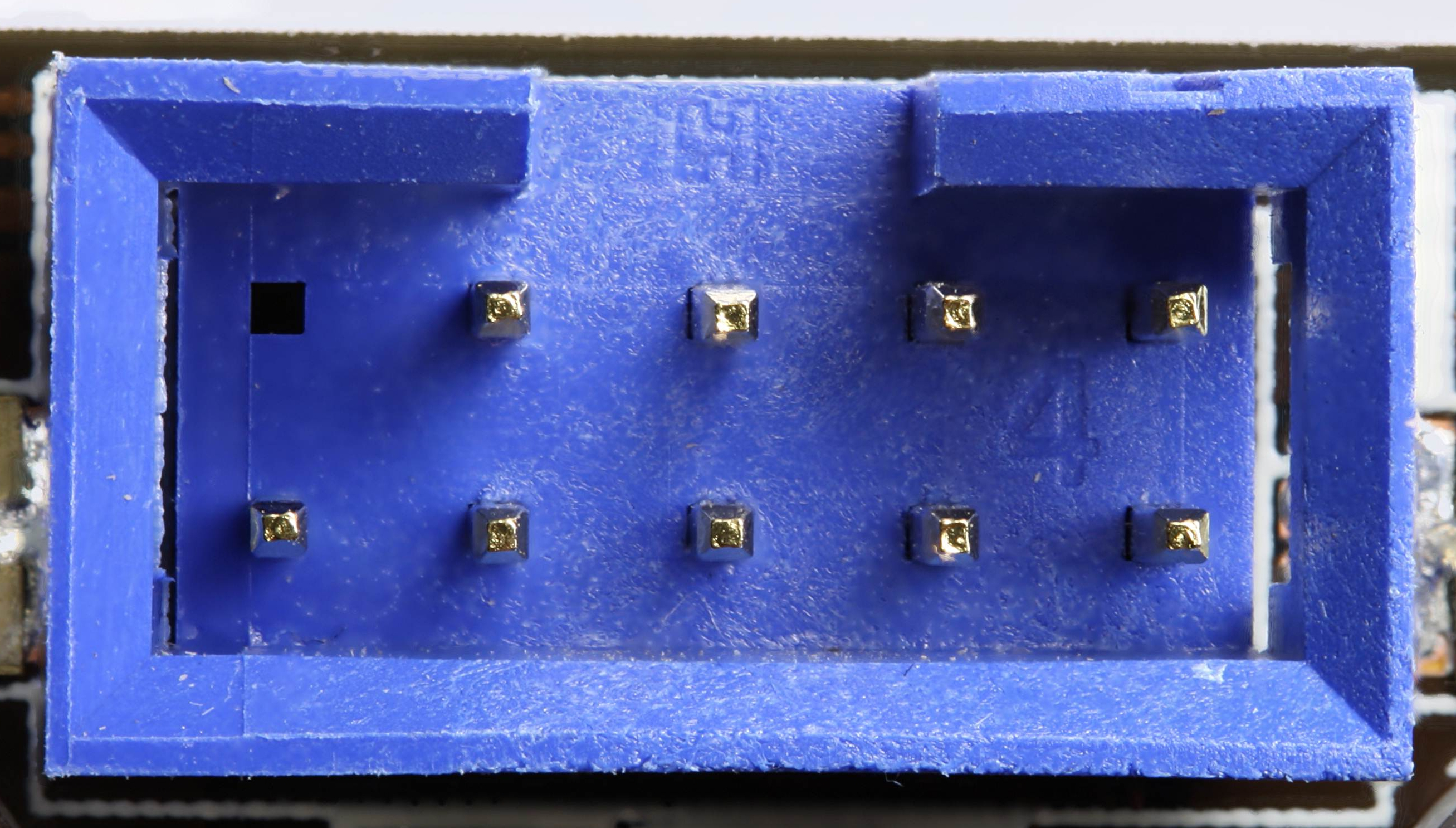 An internal, male USB 2.0 connector